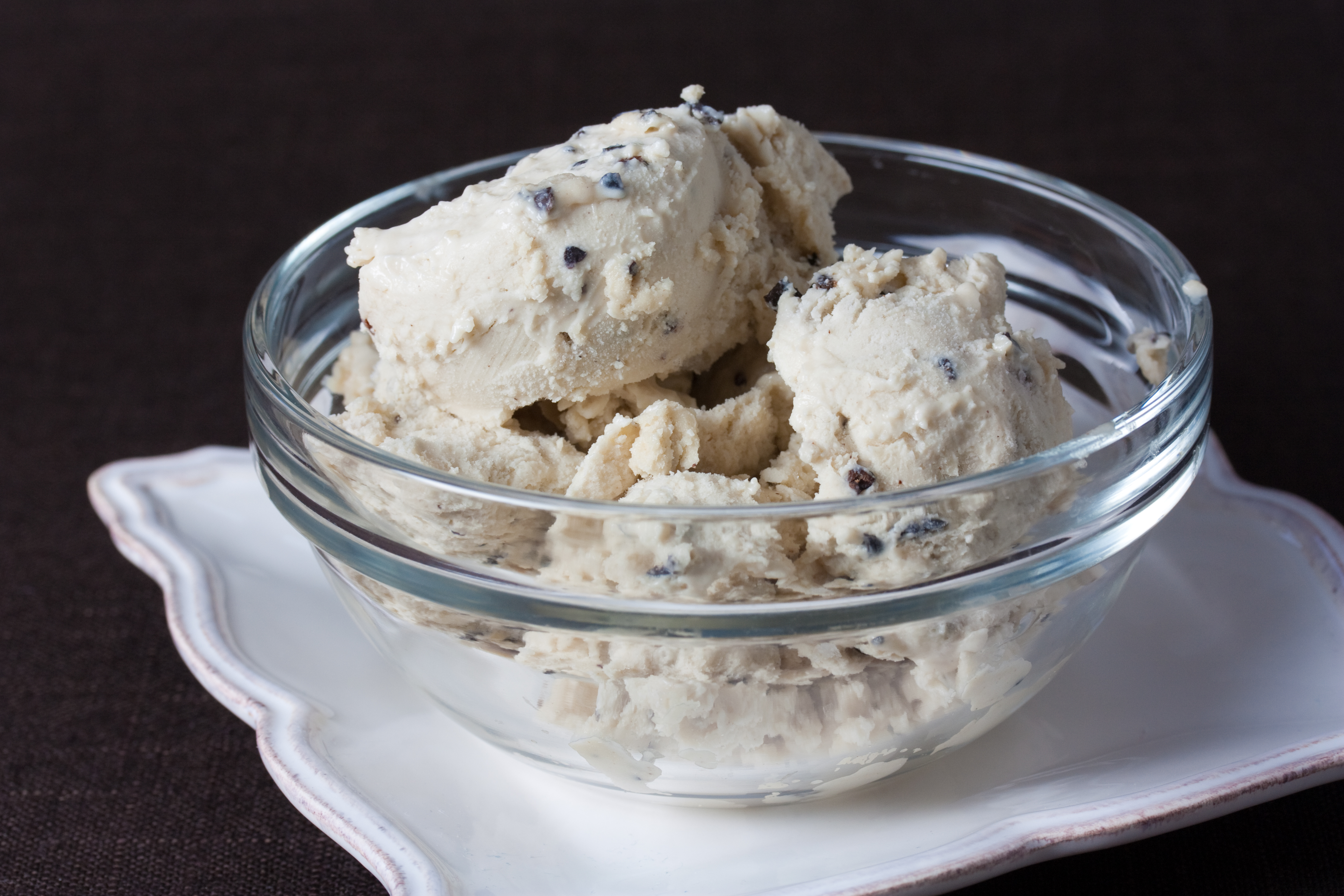 Raw Ice Cream Company Vegan Mint Chip Icecream